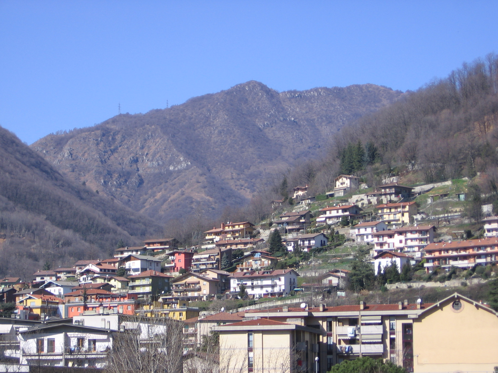 San Faustino, Nembro, Bergamo, Italy